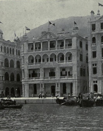 St. George Building, Hong Kong circa 1908